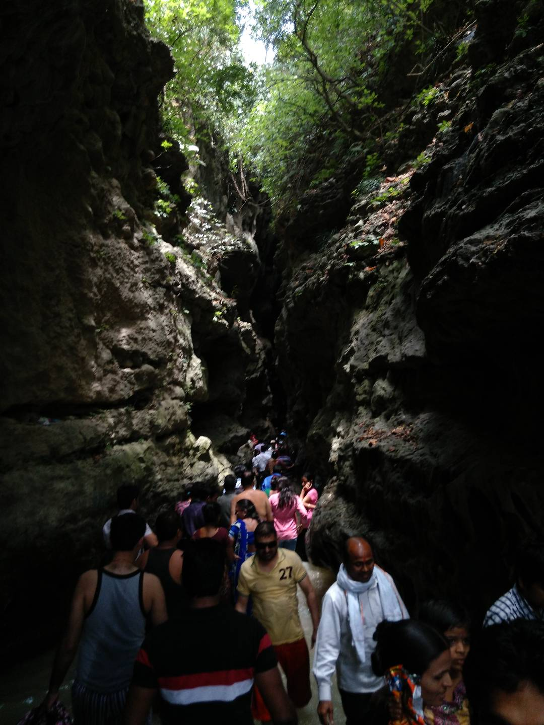 a photo of robbers cave dehradun.